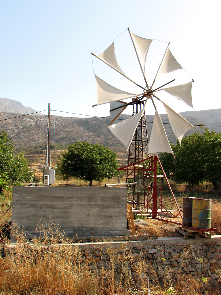 Typical irrigation windmill at the Lassithi plateau in Crete, Greece. The concrete structure on the left is a water tank.